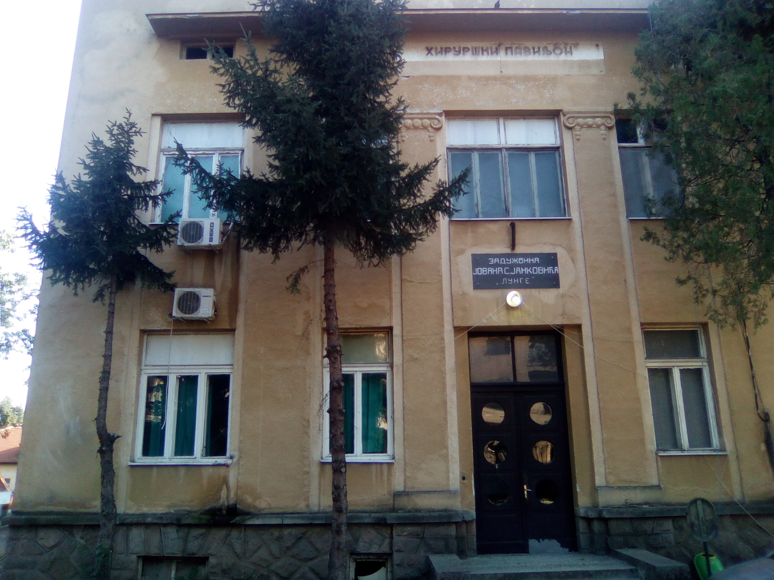 Surgical Pavilion in Vranje Српски (ћирилица): Хируршки павиљон у Врању